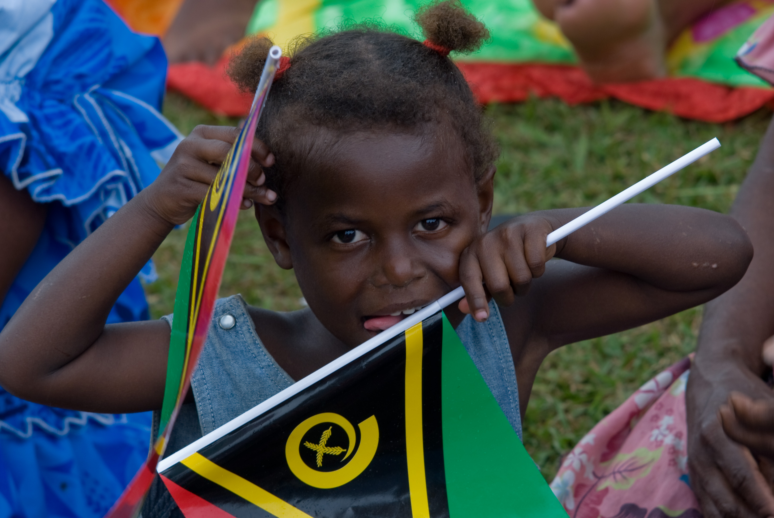 Happy Independence, Vanuatu!